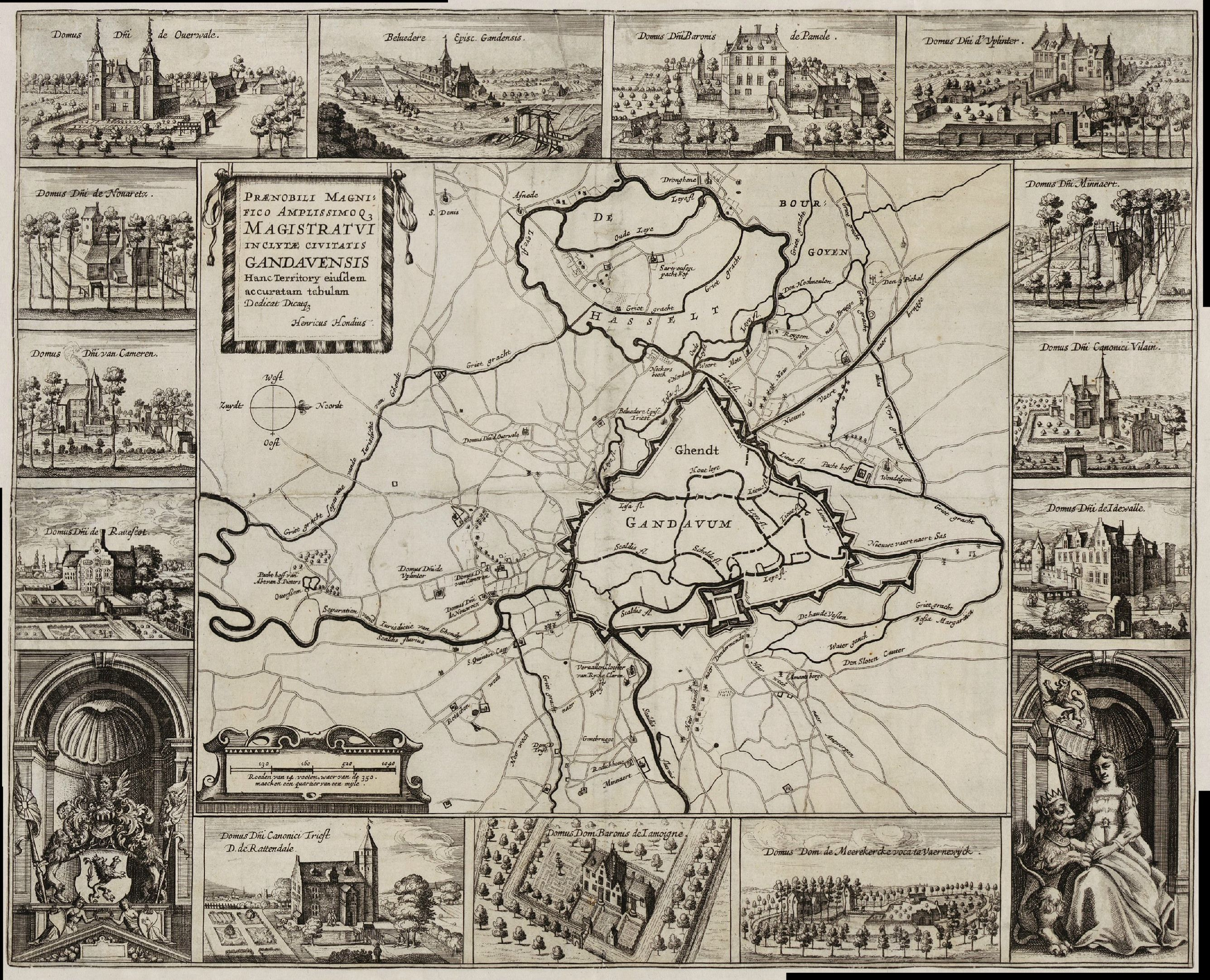 Ghent, Belgium by Hondius